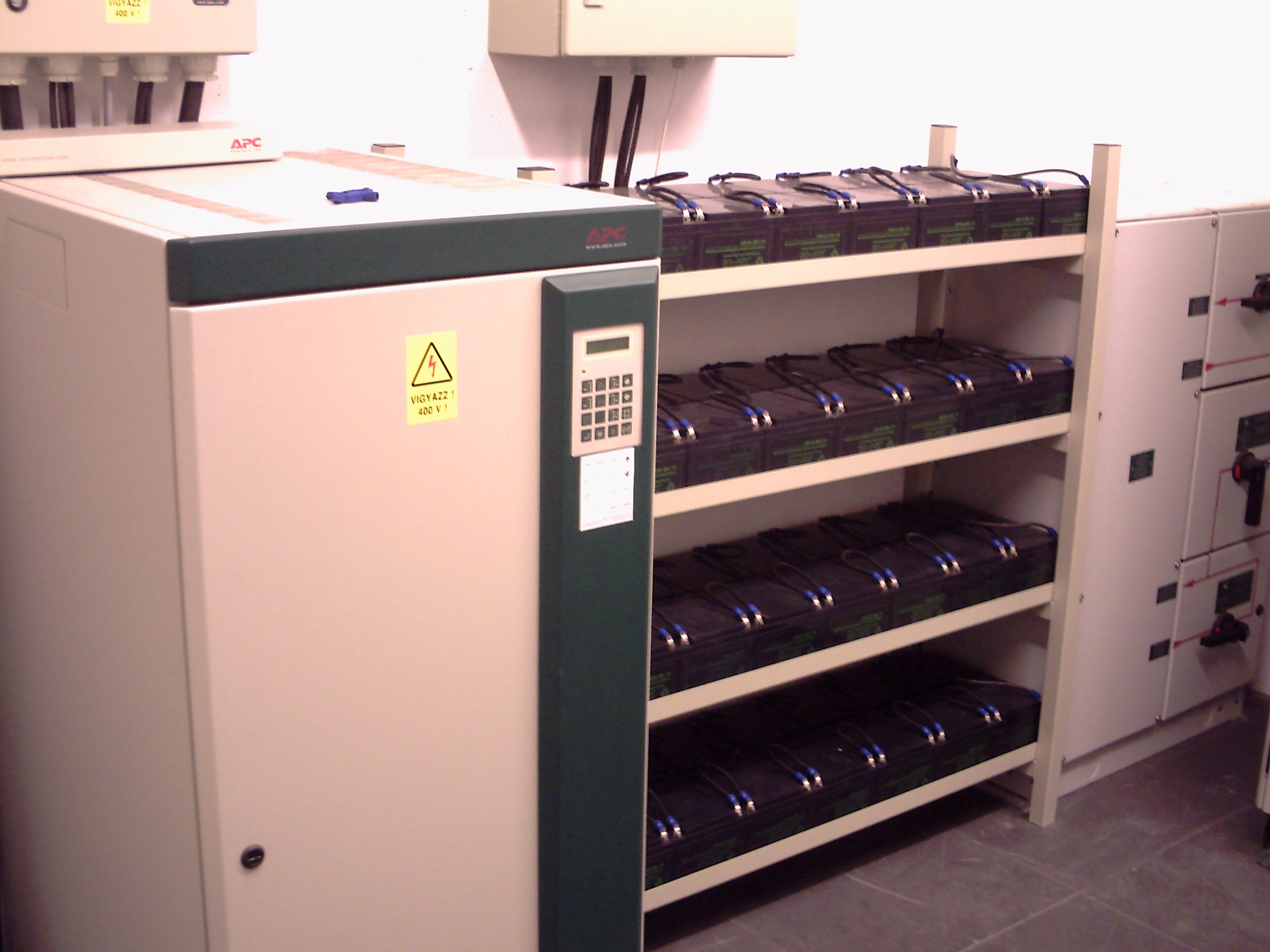 A cluster of rechargeable batteries serving as uninterruptible power supply for the building of JATIK, University of Szeged. The controller unit is visible on the left. The photo have been taken on a "Night in The Library, 2009" tour. The other side of the room is equipped with another cluster of batteries as it is visible here.